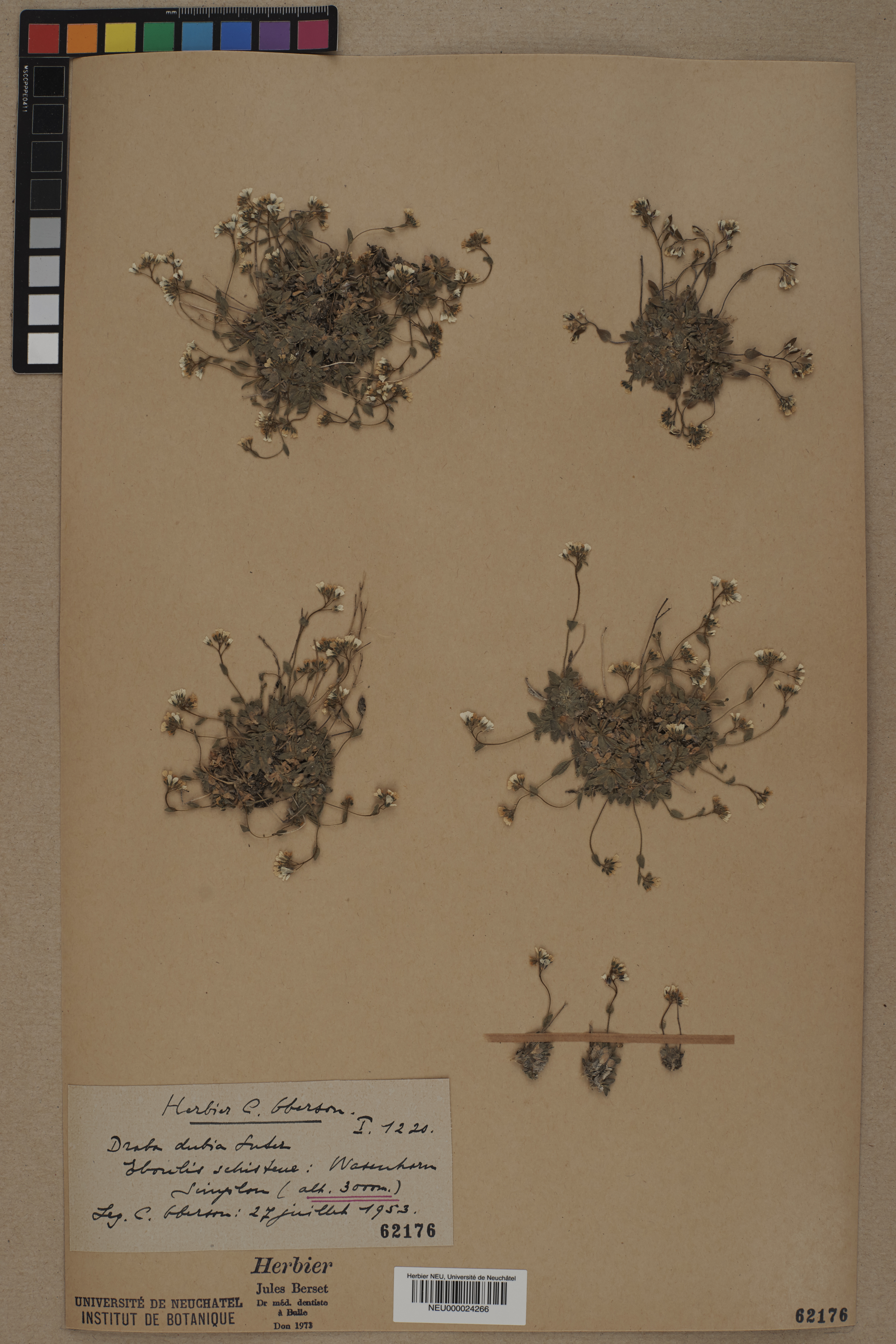 Dried pressed specimen of Draba dubia